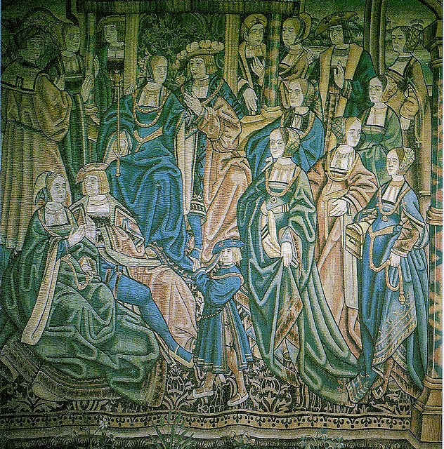 A tapestry in the Flemish style of Catherine of Aragon and her husband Arthur Tudor, Prince of Wales.